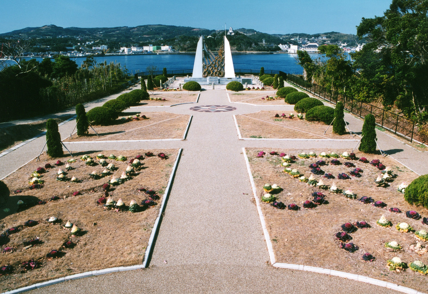 Memorial to Costanzo Camillus, Jesuit martyred in Japan. Hirado, Nagasaki Prefecture, Japan. I took the photo.